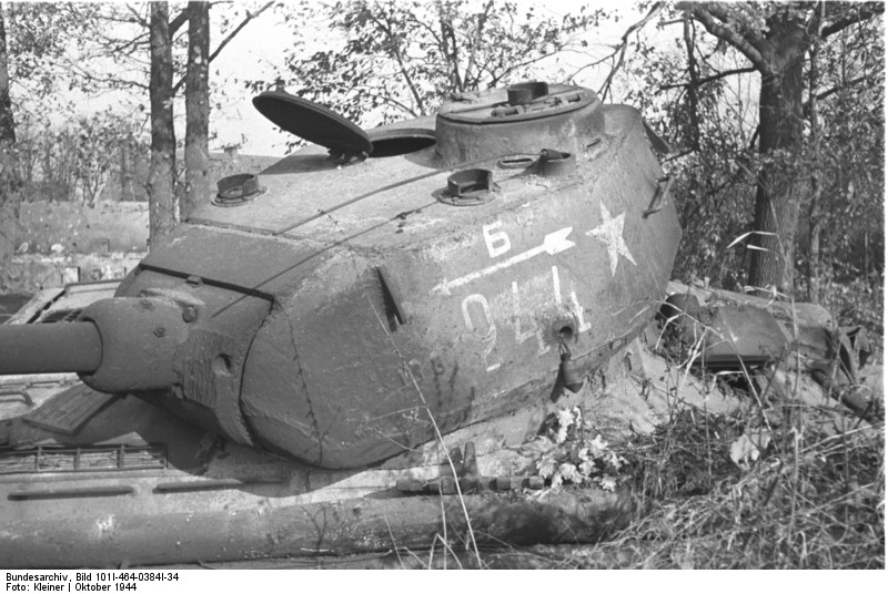 Information added by Wikimedia users.